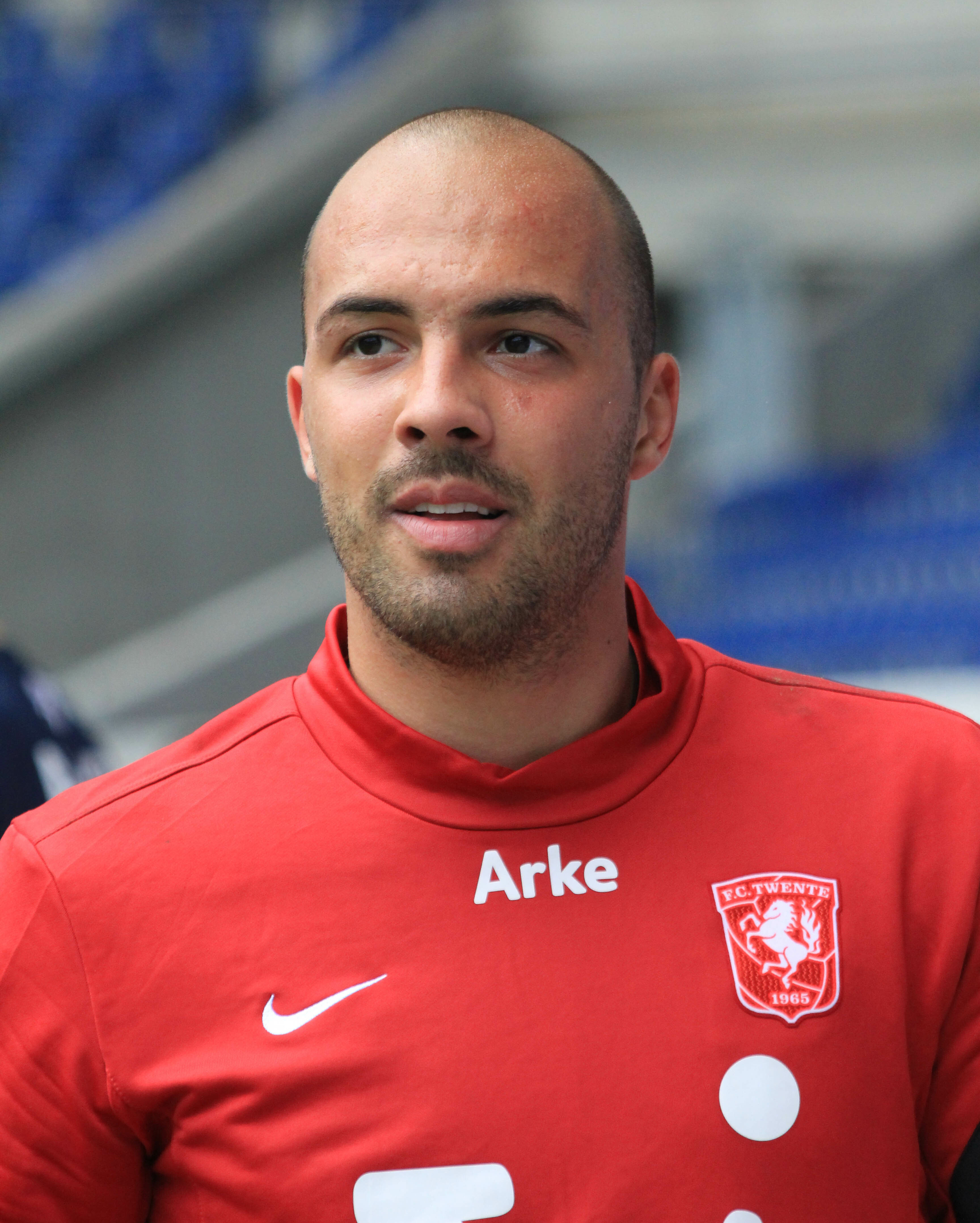 Bulgarian football goalkeeper Nikolay Mihaylov, FC Twente